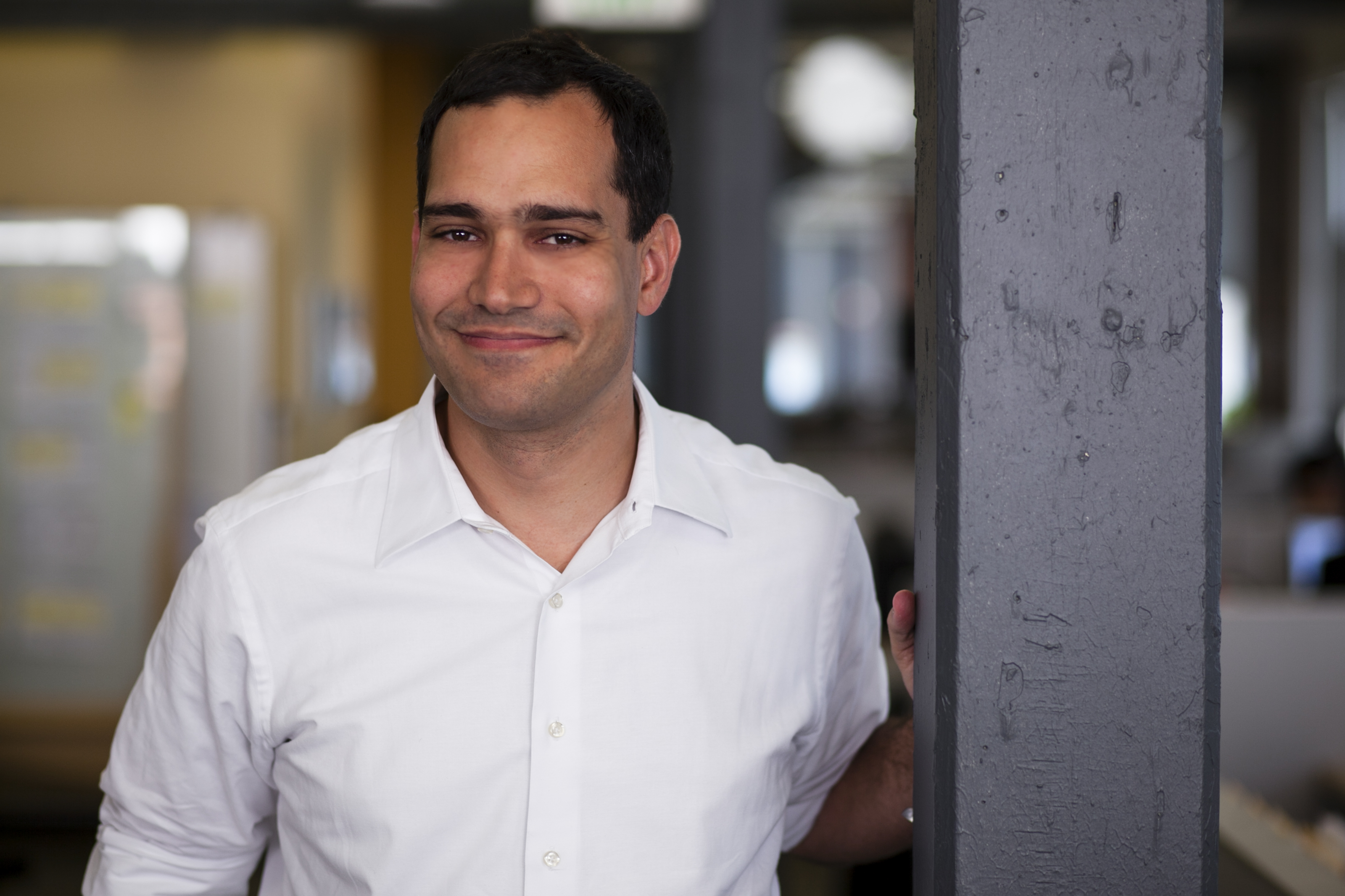 Staff photo of Luis Villa for Wikimedia Foundation staff page